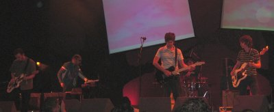 Engineers playing at the Summer Sundae festival 2005